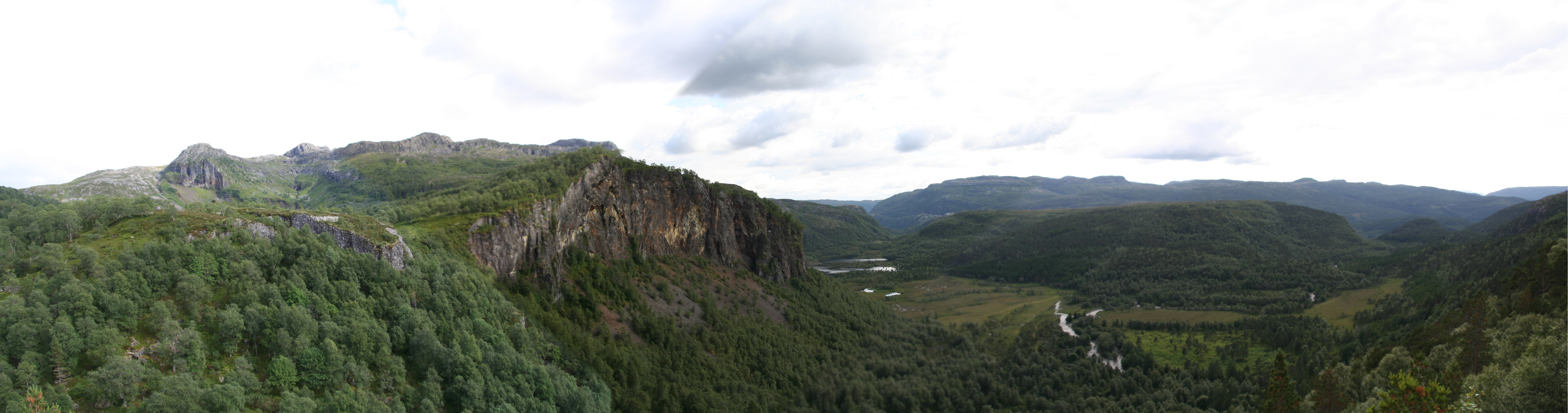 Ritland crater from north.